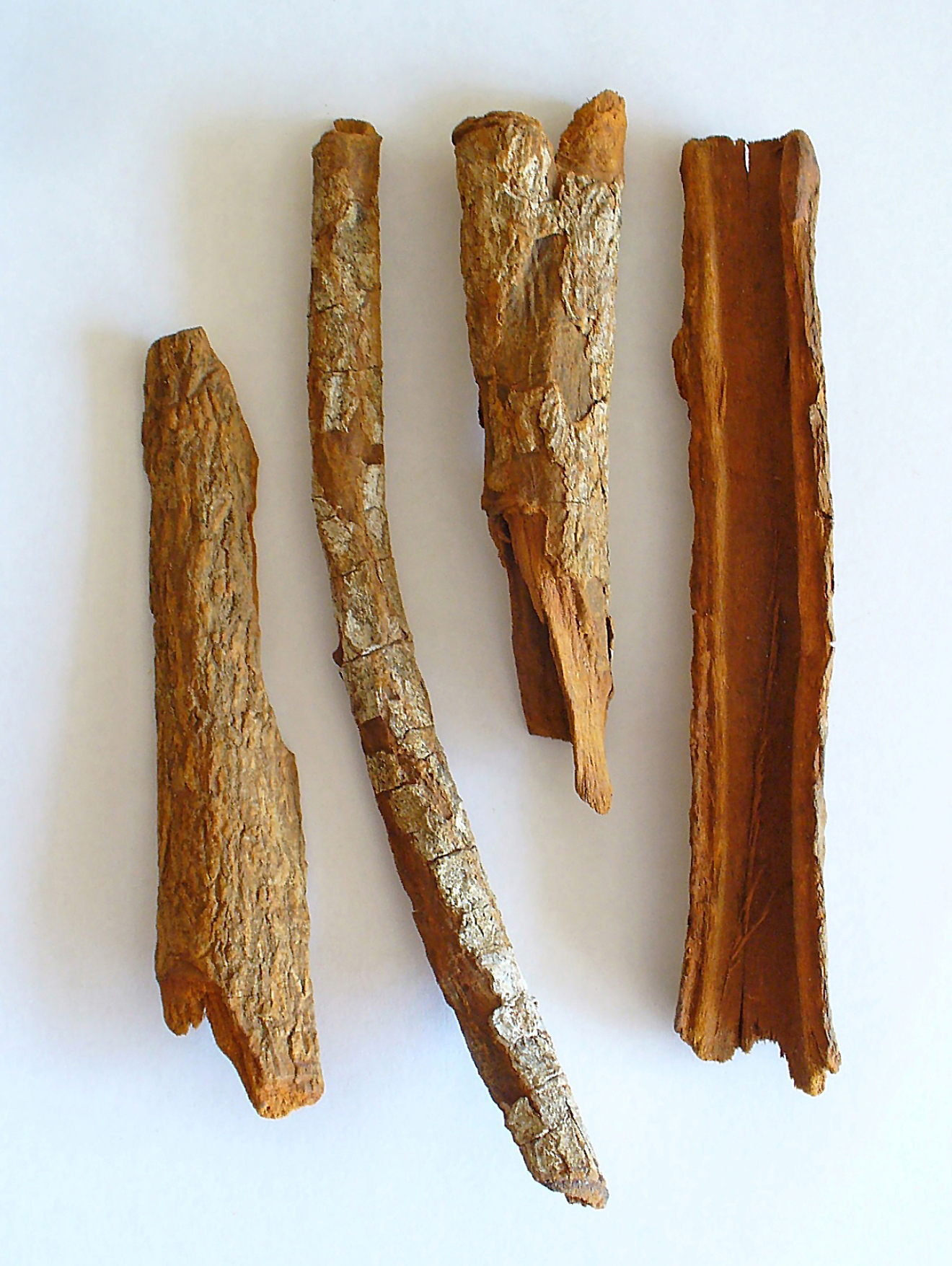 Cinchona officinalis, Rubiaceae, Quinine Bark, bark.